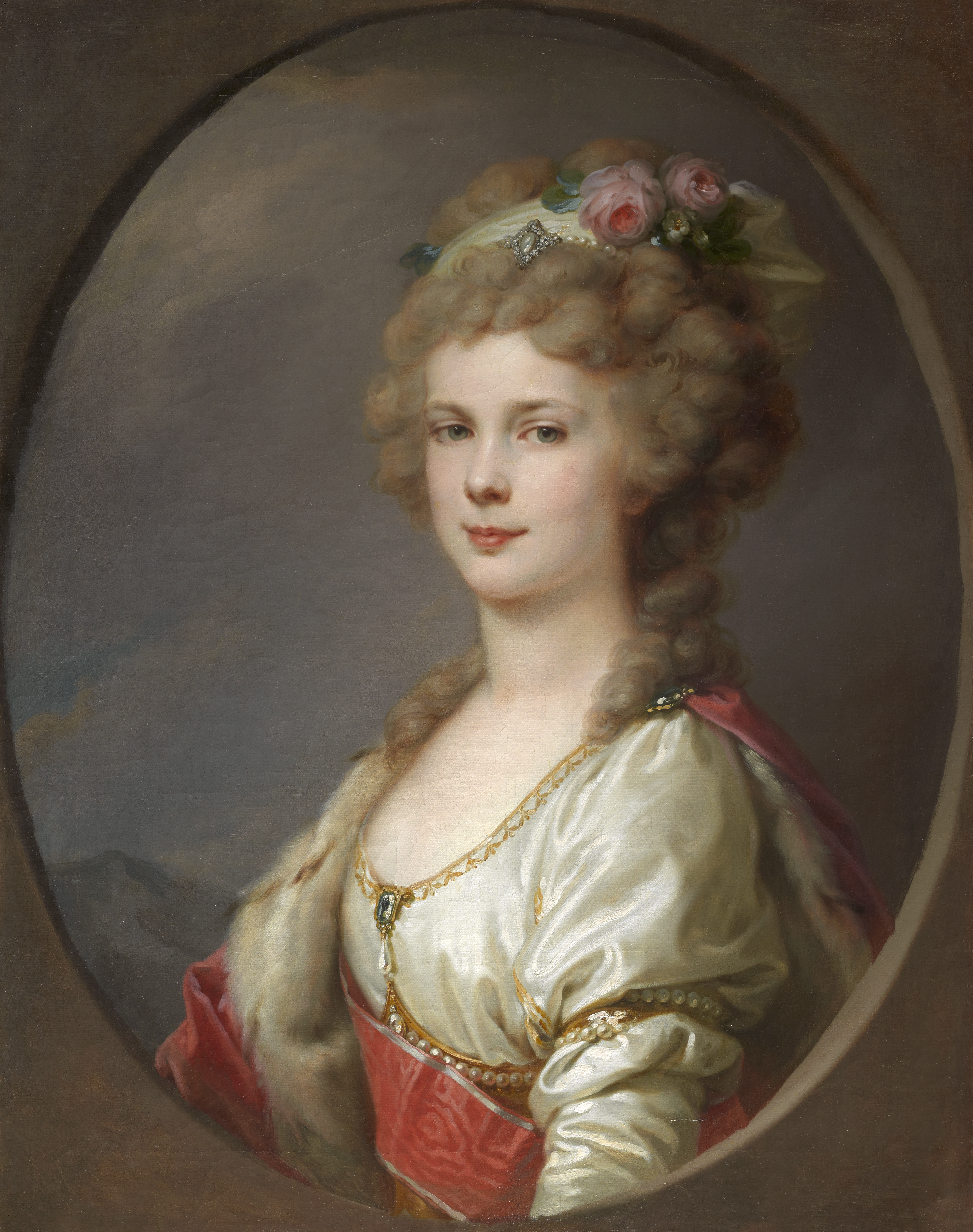 TEFAF, Exhibitor: Didier Aaron & Cie Giovanni Battista Lampi II (Trento 1775-1837 Vienna) Portrait of Elena Pavlovna of Russia Oil on canvas, 72 x 57 cm